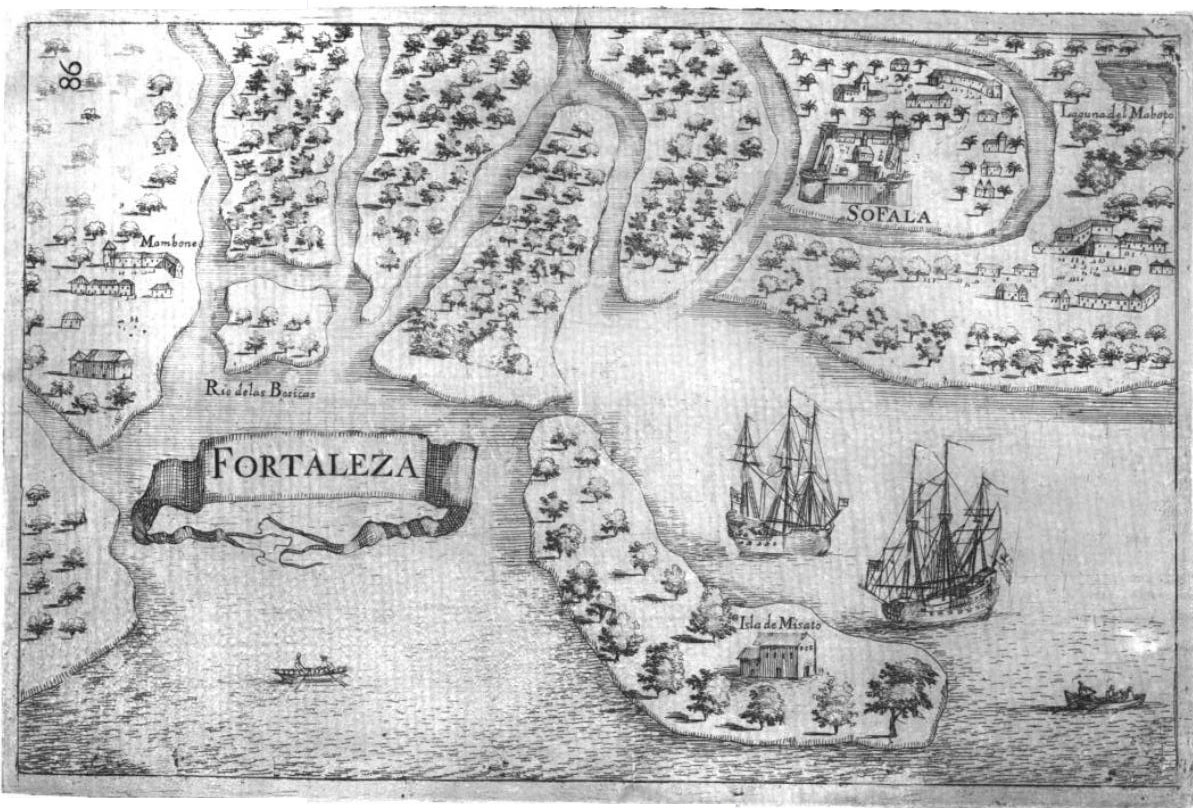 Depiction of Sofala (Mozambique), from Manuel de Faria e Sous, 1666, Asia Portuguesa, volume 1